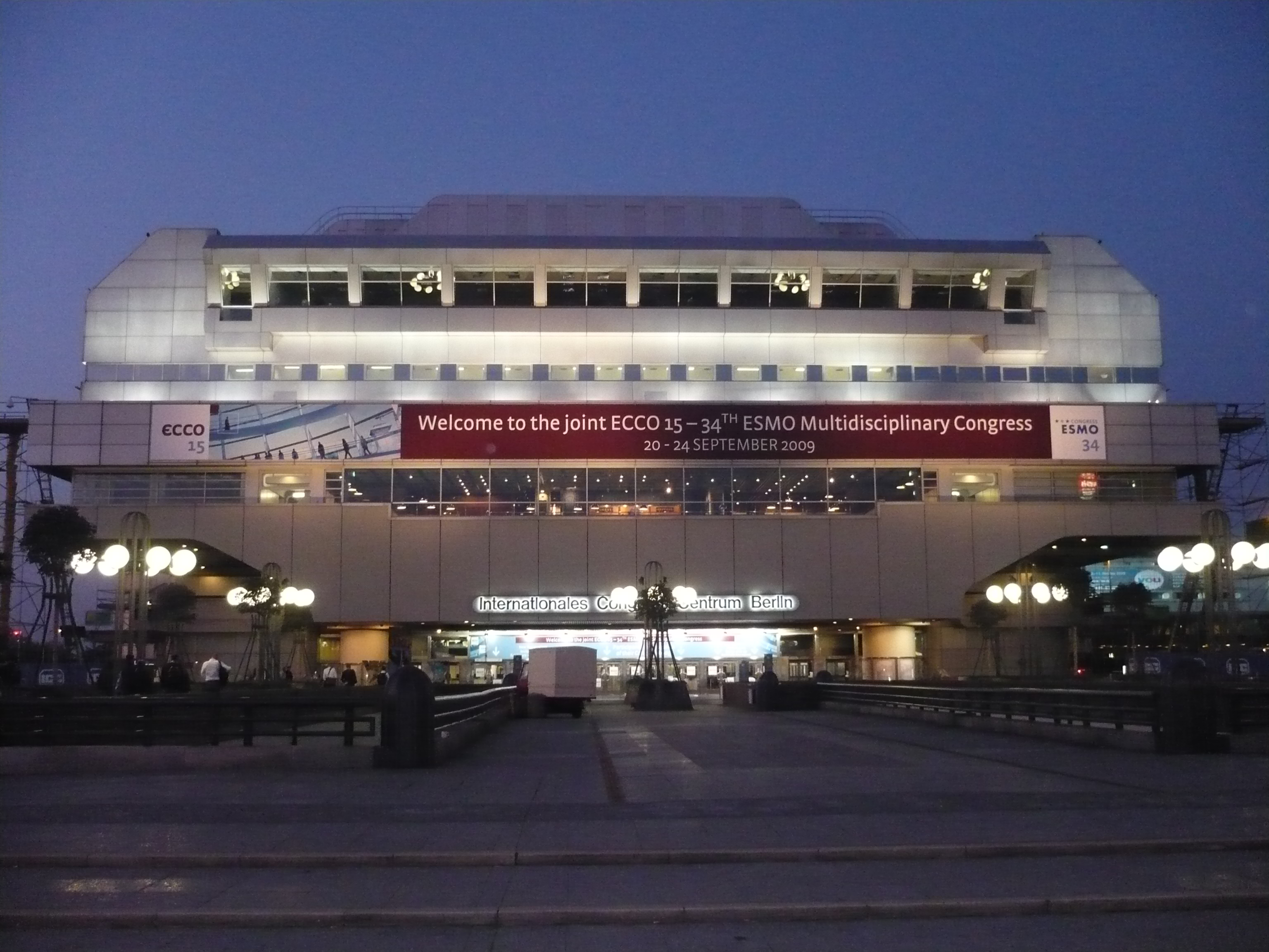 ECCO congress Berlin 2009, conference building